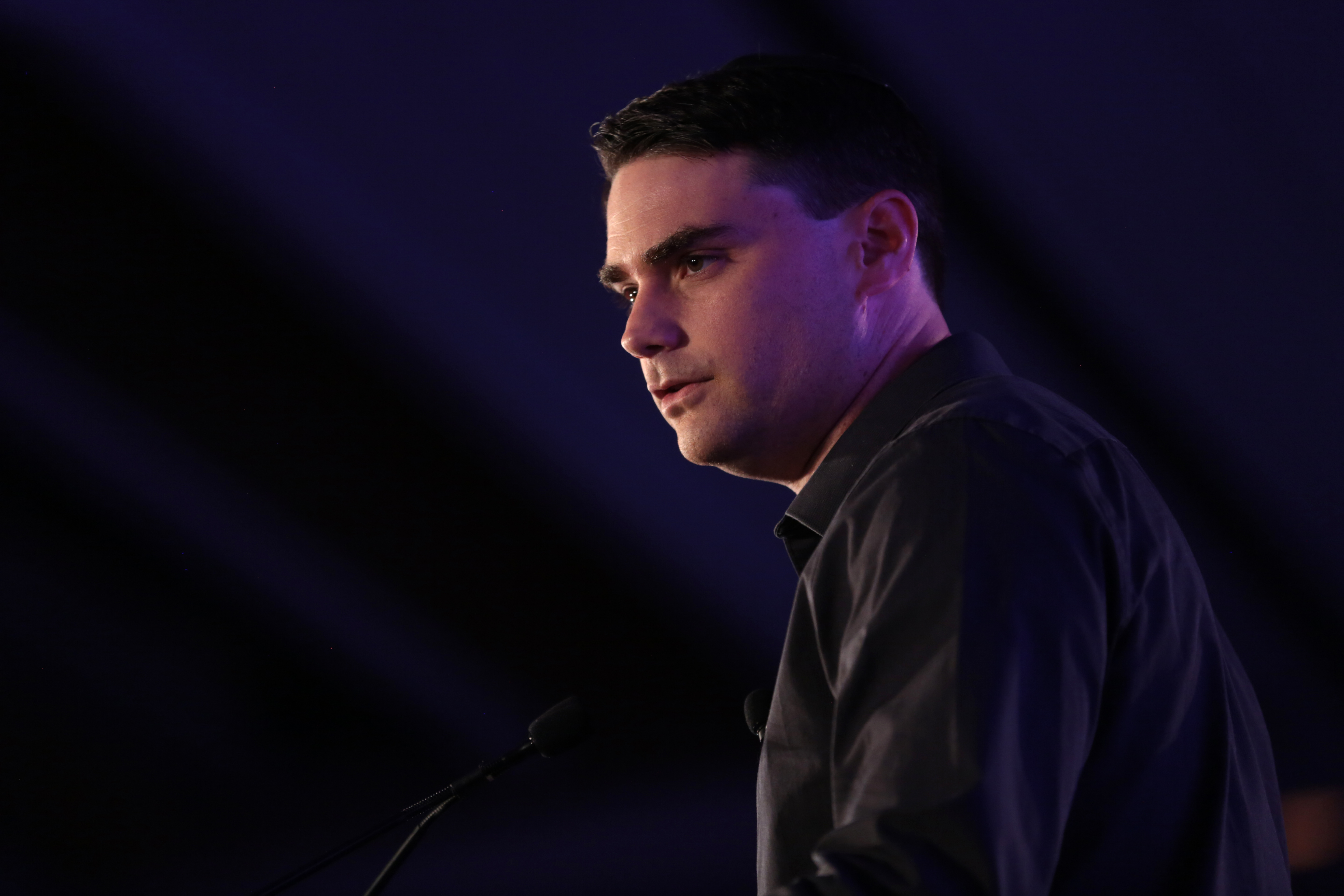 Ben Shapiro speaking with attendees at the 2018 Young Women's Leadership Summit hosted by Turning Point USA at the Hyatt Regency DFW Hotel in Dallas, Texas.